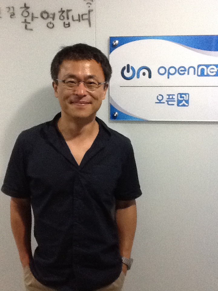 Kim Ki-chang, founder of Opennet.